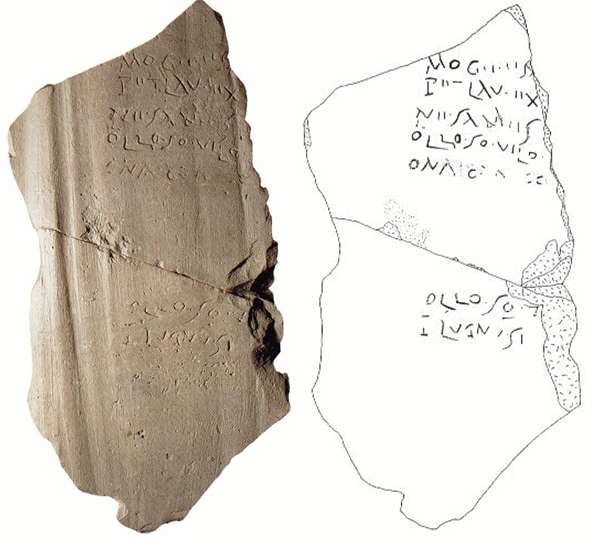 The Grafenstein inscription, on a tile from the 2nd century AD that was discovered in a gravel pit in 1977 (Grafenstein, Austria)